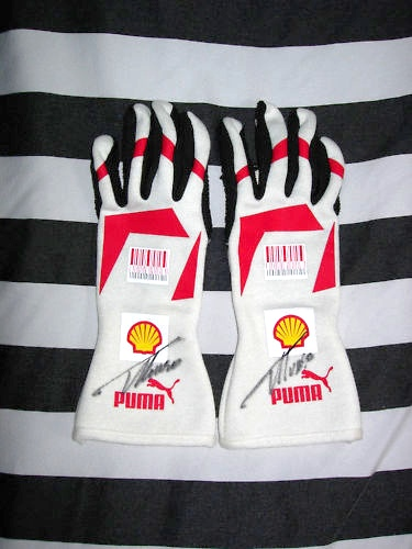 Fernando Alonso's Puma Avanti racing gloves in 2010 F1 season, including original signature.